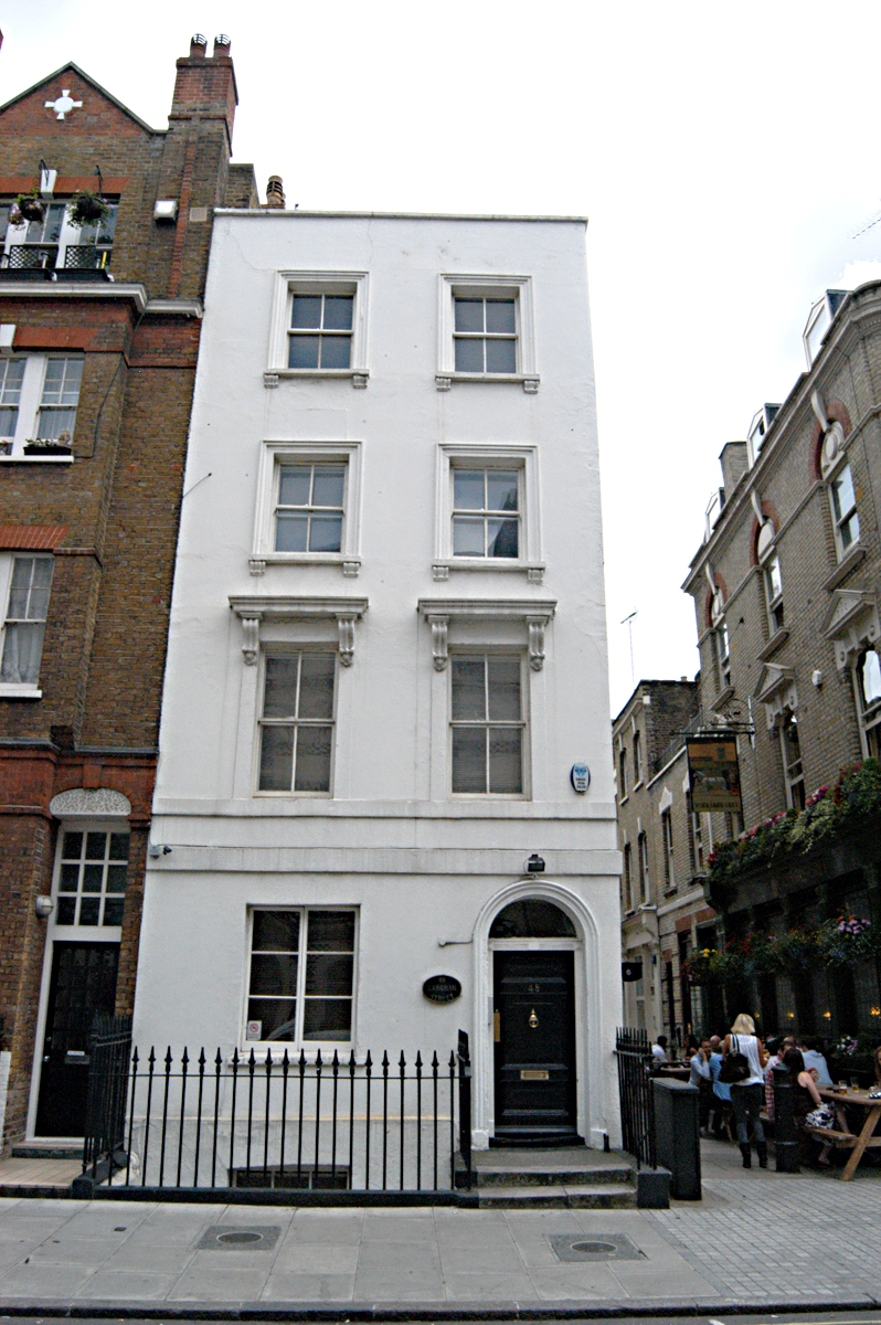 48 Langham Street, London W1 (Paddington), on the corner of Langham Street and Middleton Place, near the Yorkshire Grey pub. The American poet Ezra Pound rented rooms here in 1908. The landlady and the pub were mentioned in The Pisan Cantos (1948).